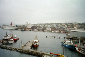 Overview of Tromsø, Norway. Taken from the bridge towards Tromsdalen.